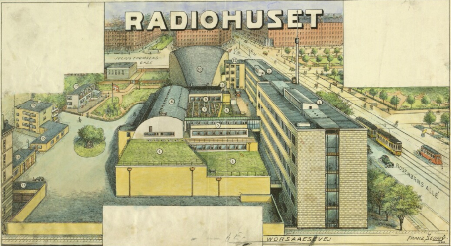 Radiohuset in Copenhagen, Denmark